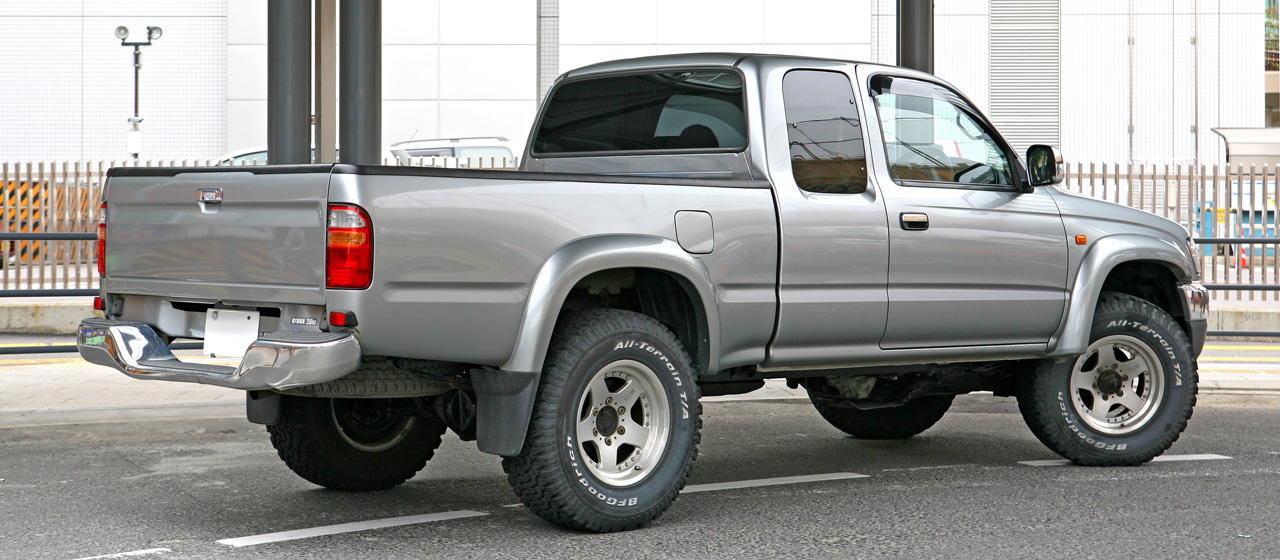 Toyota Hilux Sports Pickup 2.7 4WD Extra-cab wide ( RZN174H )